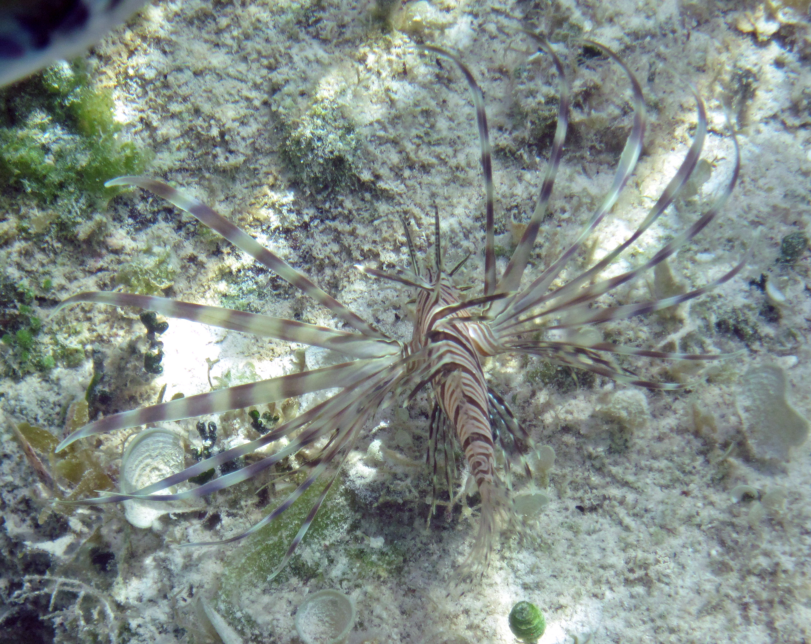 Pterois volitans (Linnaeus, 1758) - red lionfish at a small patch reef. Red lionfish are not native to the Bahamas or the Caribbean Sea or the Gulf of Mexico or the Atlantic Ocean. Their natural occurrence is in the central and western Pacific Ocean, plus the eastern Indian Ocean. In the Bahamas, they are a pest species (invasive species), accidentally introduced by a storm overwashing an aquarium collection. Red lionfish now occur along America's eastern seaboard. Lionfish spearfishing has been recently encouraged and practiced in the Bahamas (lionfish meat is edible for humans). Active lionfish spearfishing has attracted reef sharks, and they now seem to be "natural" predators on lionfish. This has resulted in lionfish becoming less common. Lionfish spines have toxins that incapacitate or kill potential predators. The bold colored stripes on their bodies advertise their toxicity. Classification: Animalia, Chordata, Vertebrata, Actinopterygii, Scorpaeniformes, Scorpaenidae Locality: small patch reef just west of North Point Peninsula, eastern Graham's Harbour, northeastern San Salvador Island, eastern Bahamas